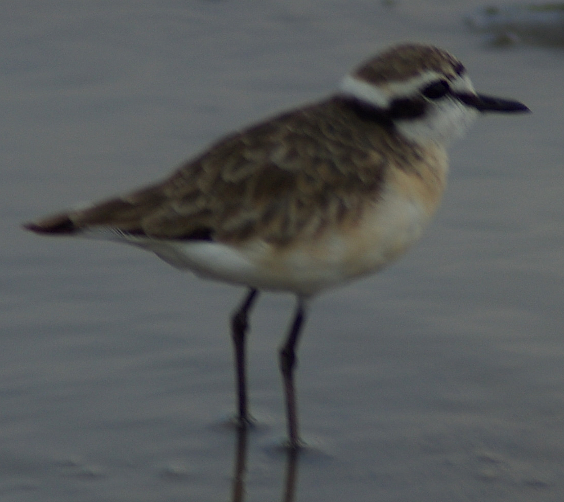 Adult Kittlitz's Plover, Charadrius pecuarius, Lake Nakuru, Kenya. The time stamp is 10 hours too early.